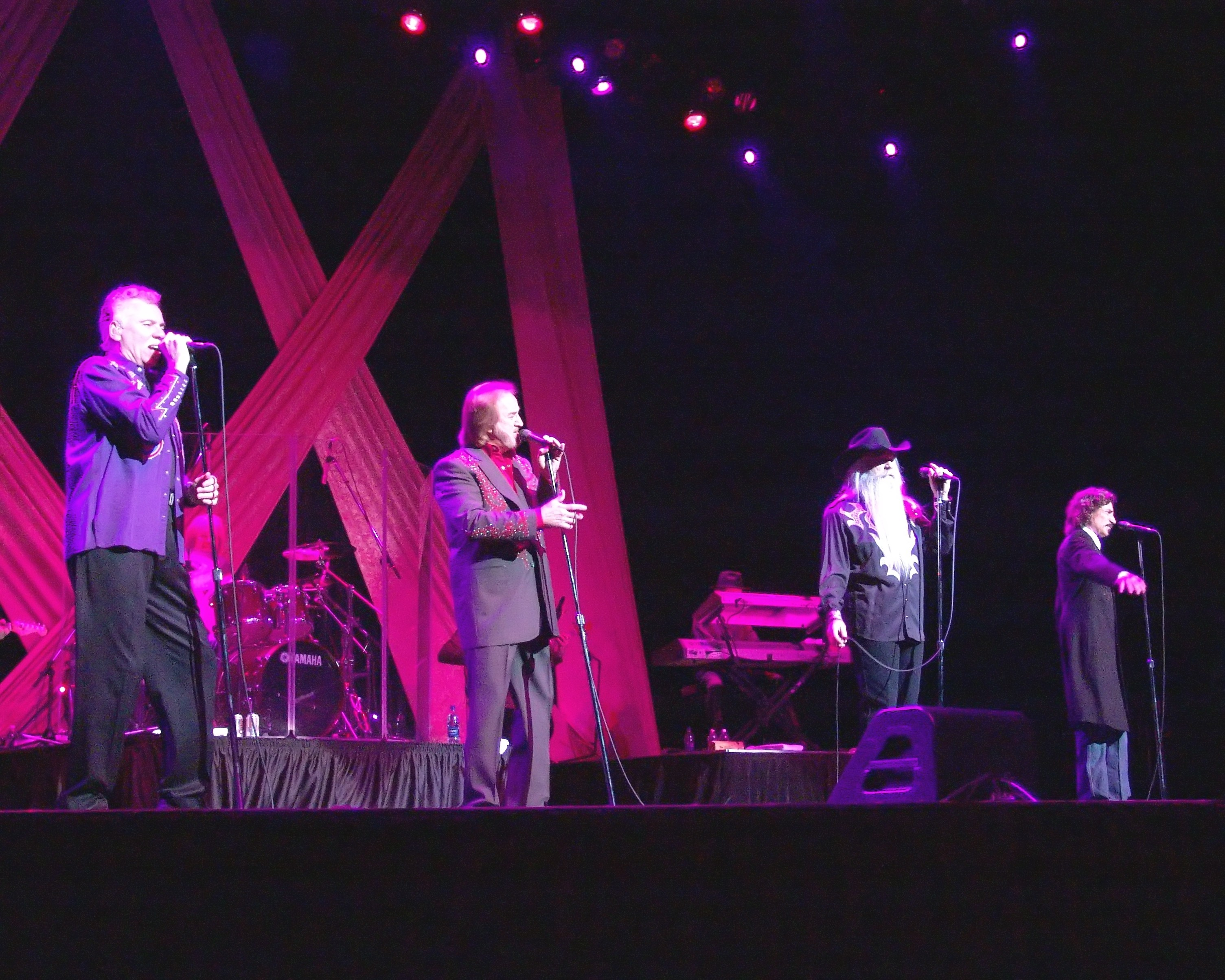 The Oak Ridge Boys - Joe, Duane, William Lee & Richard